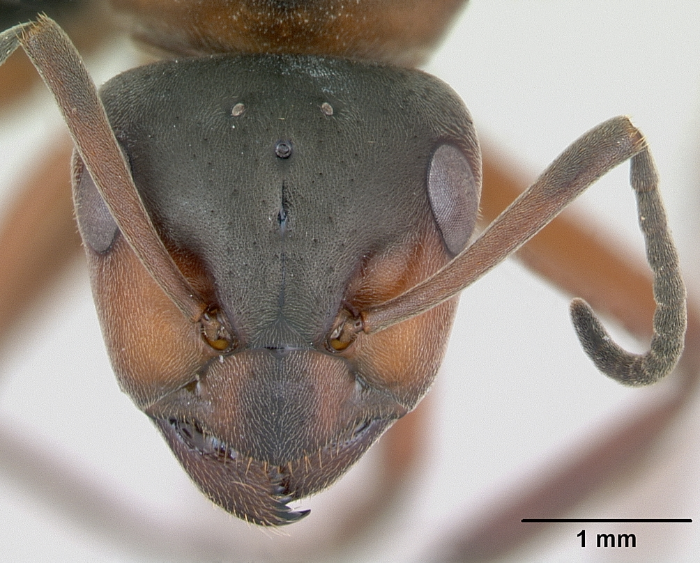 Head view of ant Formica pratensis specimen casent0173141.